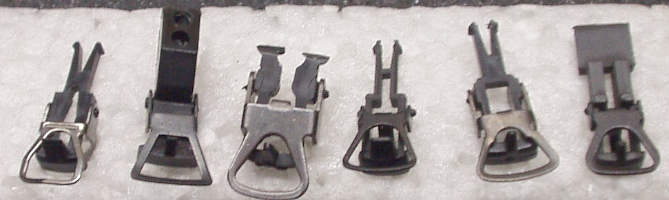 Loop and hook couplers